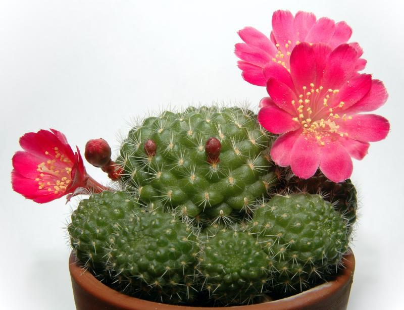 Picture of my own plant